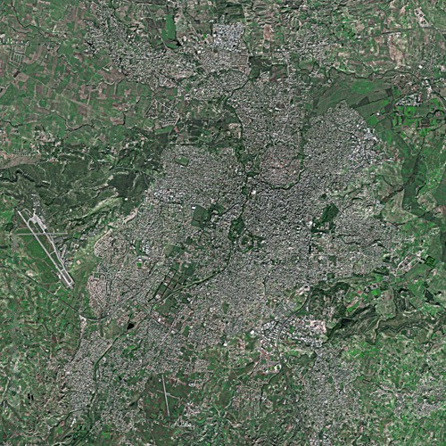 Nicosia by SPOT Satellite